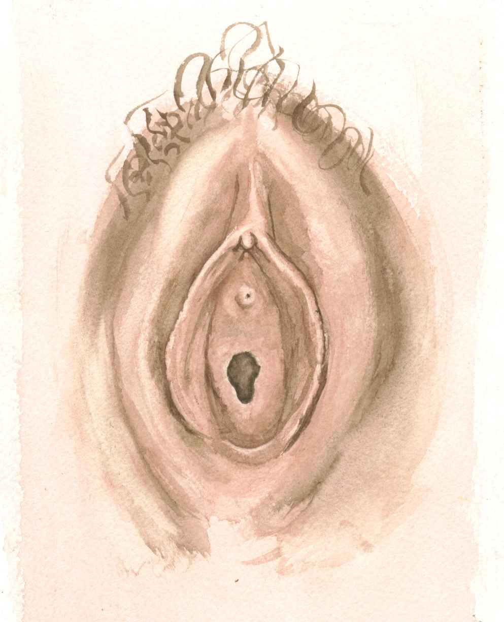 Anatomical drawing of clitoris and environs